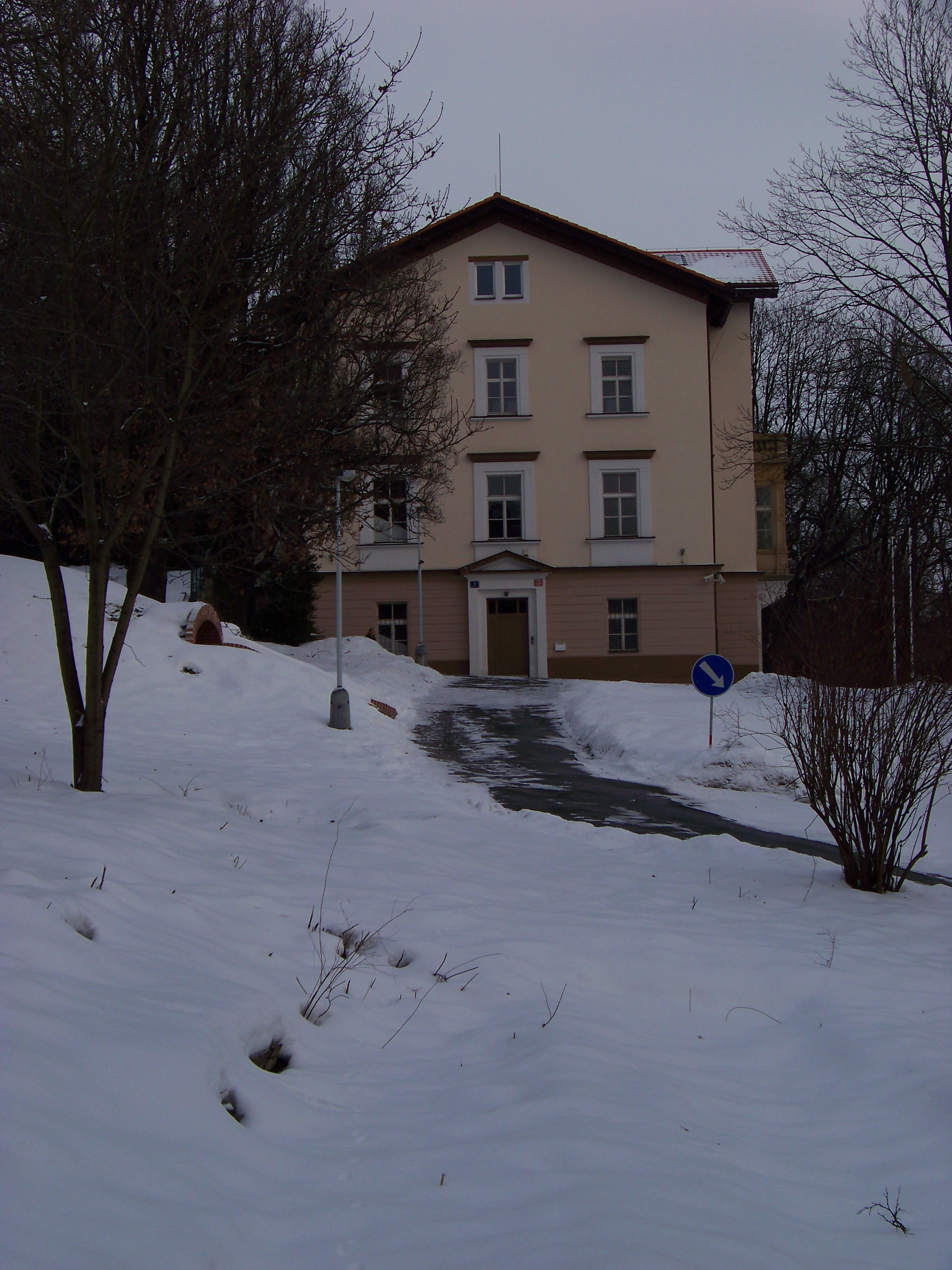 Prague-Vysočany, the Czech Republic. Na Jetelce path, Flajšnerka, a house No 69/2.